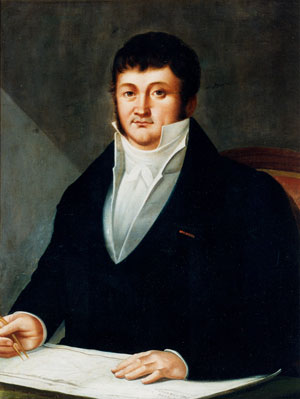 Contemporary portrait of Robert Surcouf